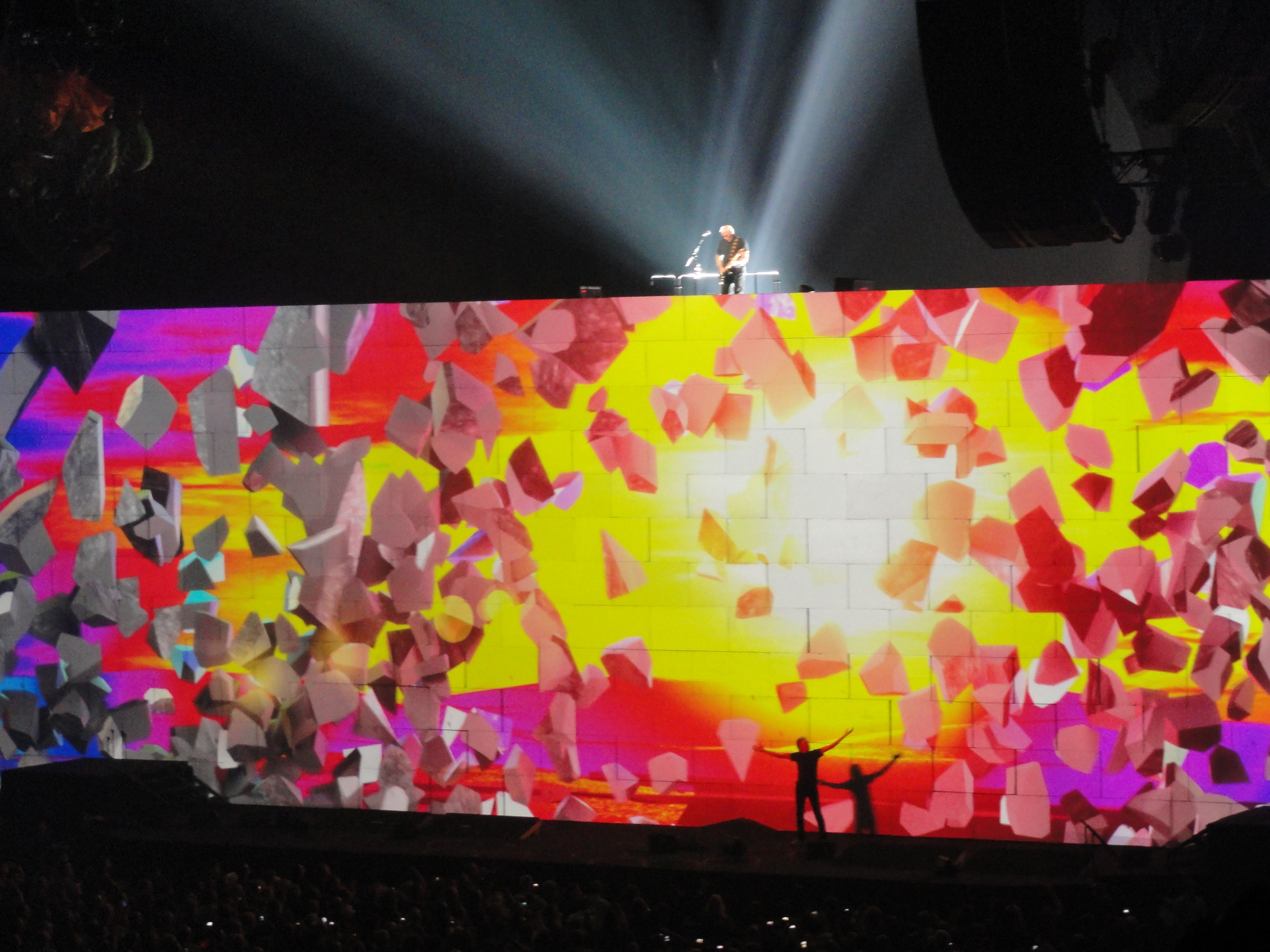 Roger Waters and David Gilmour, The Wall Live in The O2, London